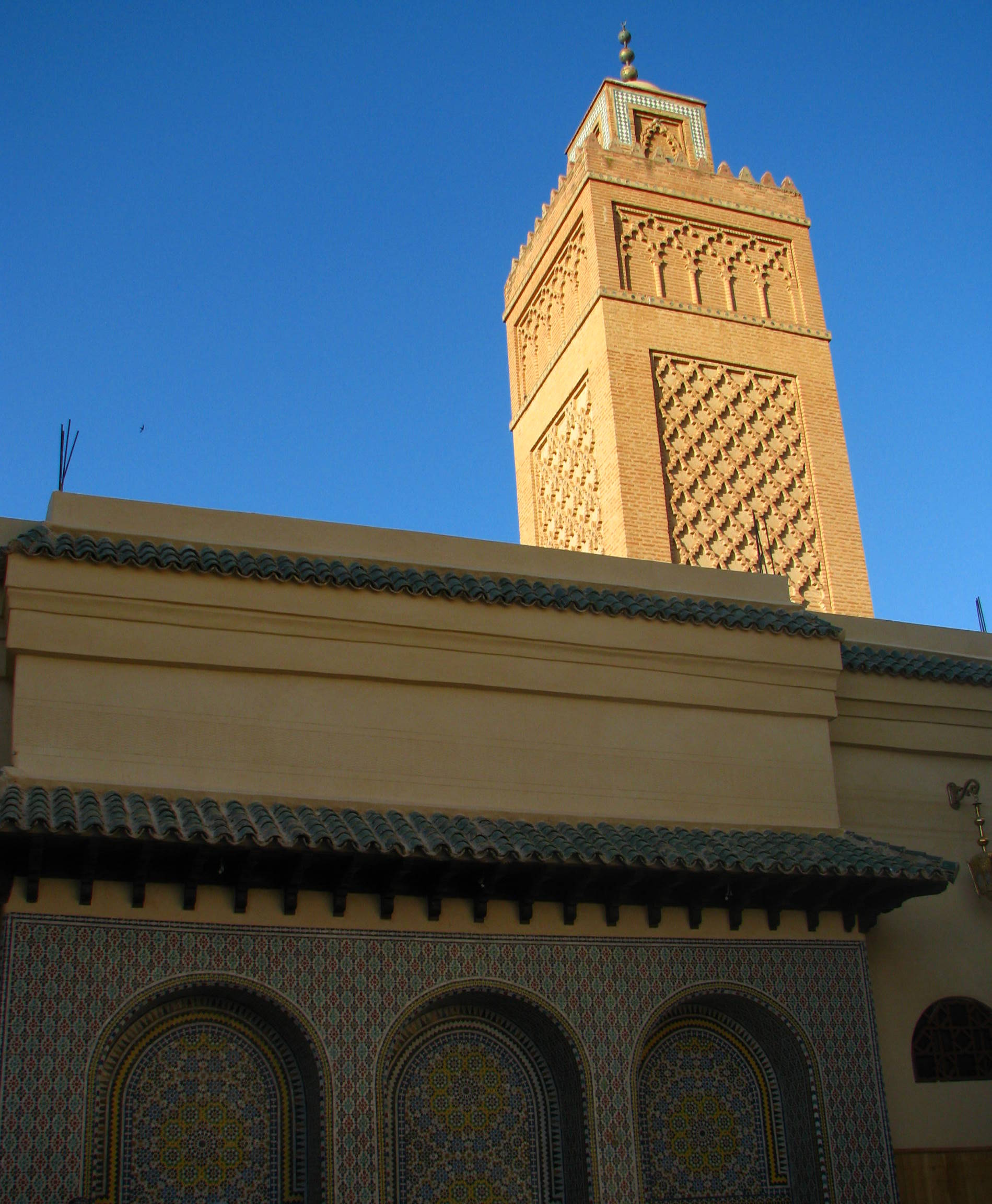 The oldest mosque in the city of Oujda